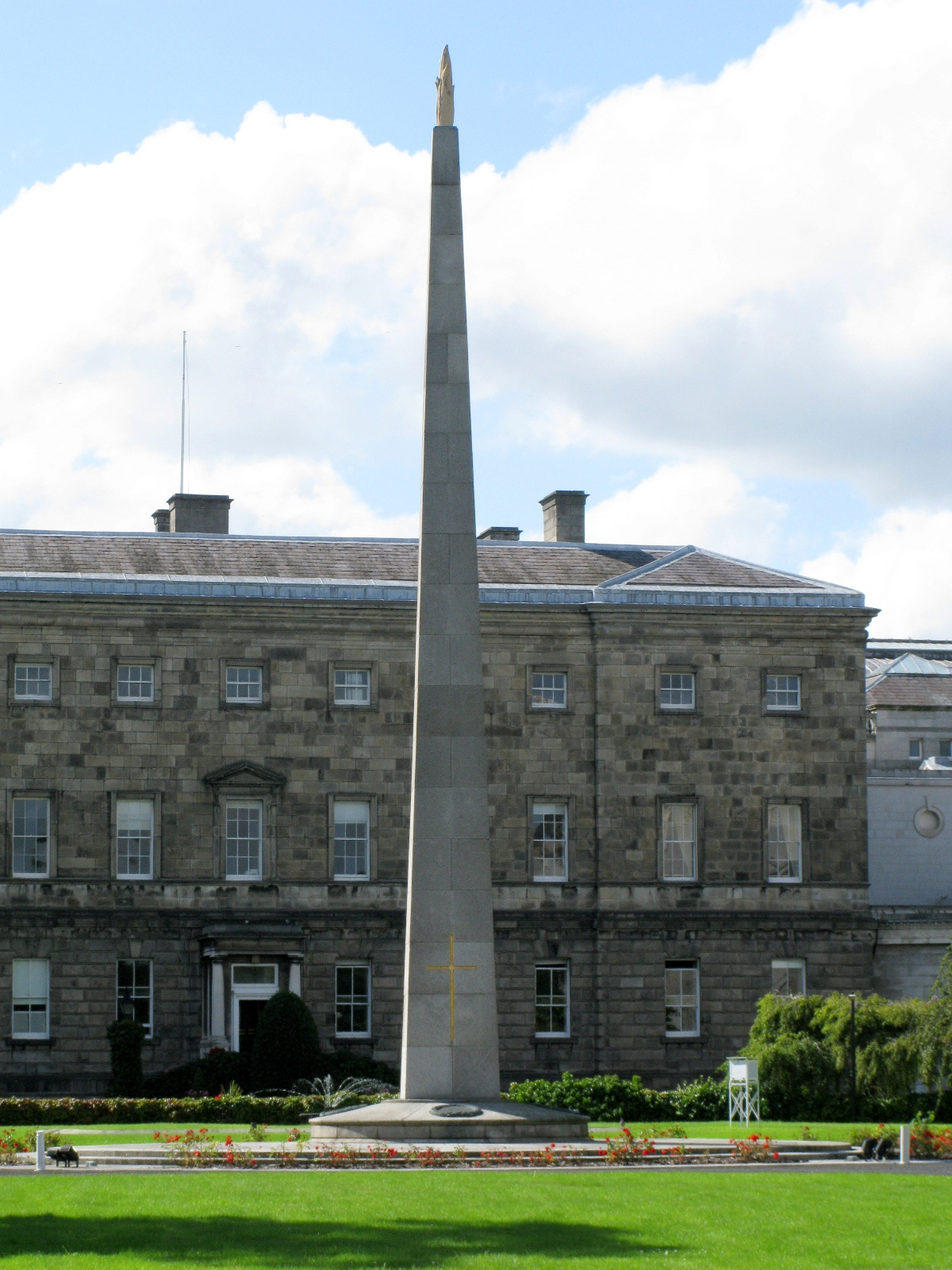 Granite obelisk located at Leinster Lawn, Leinster House, Dublin commemorating Arthur Griffith, Michael Collins and Kevin O'Higgins